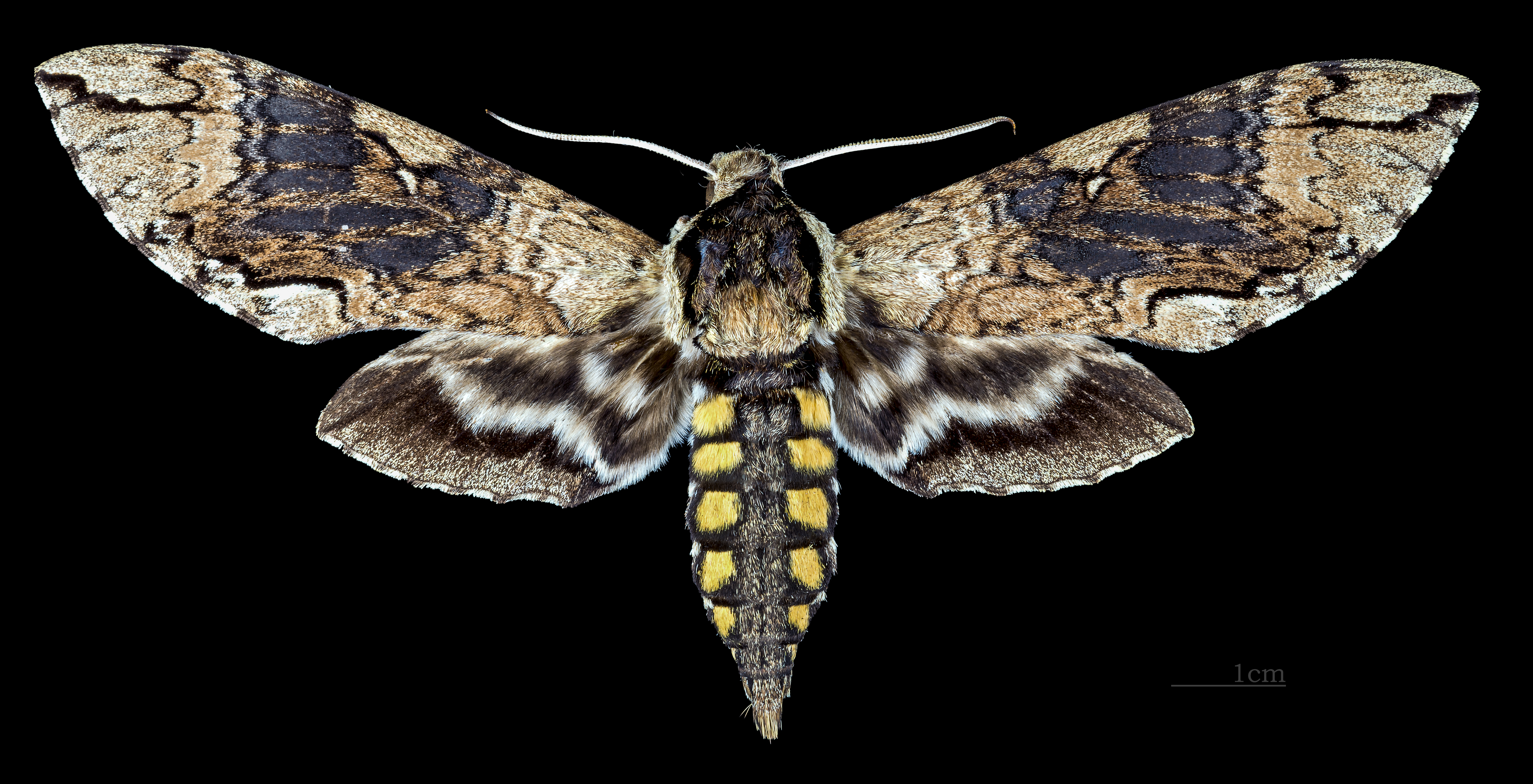 Manduca morelia - Dorsal side